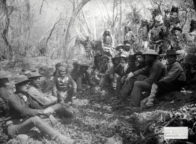 photo of surrender negotiations between U.S. Army and Geronimo in Mexico March 1886